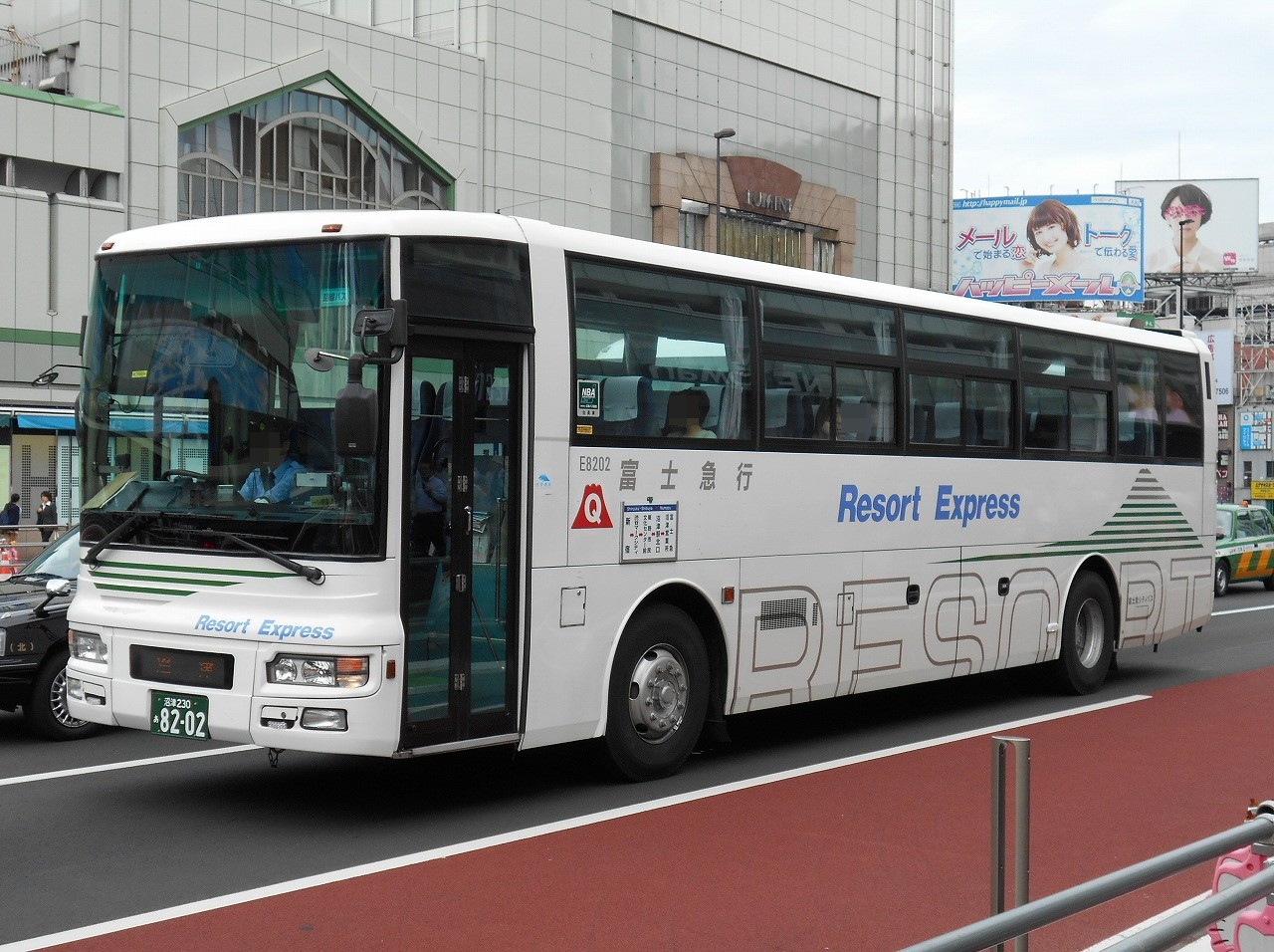 Fujikyu city bus Nissan Diesel Space Arrow (KL-RA552RBN,FHI 1M body) highwaybus "Shinjuku-Numazu"